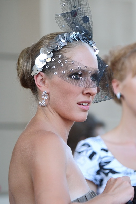 Katya Osadcha